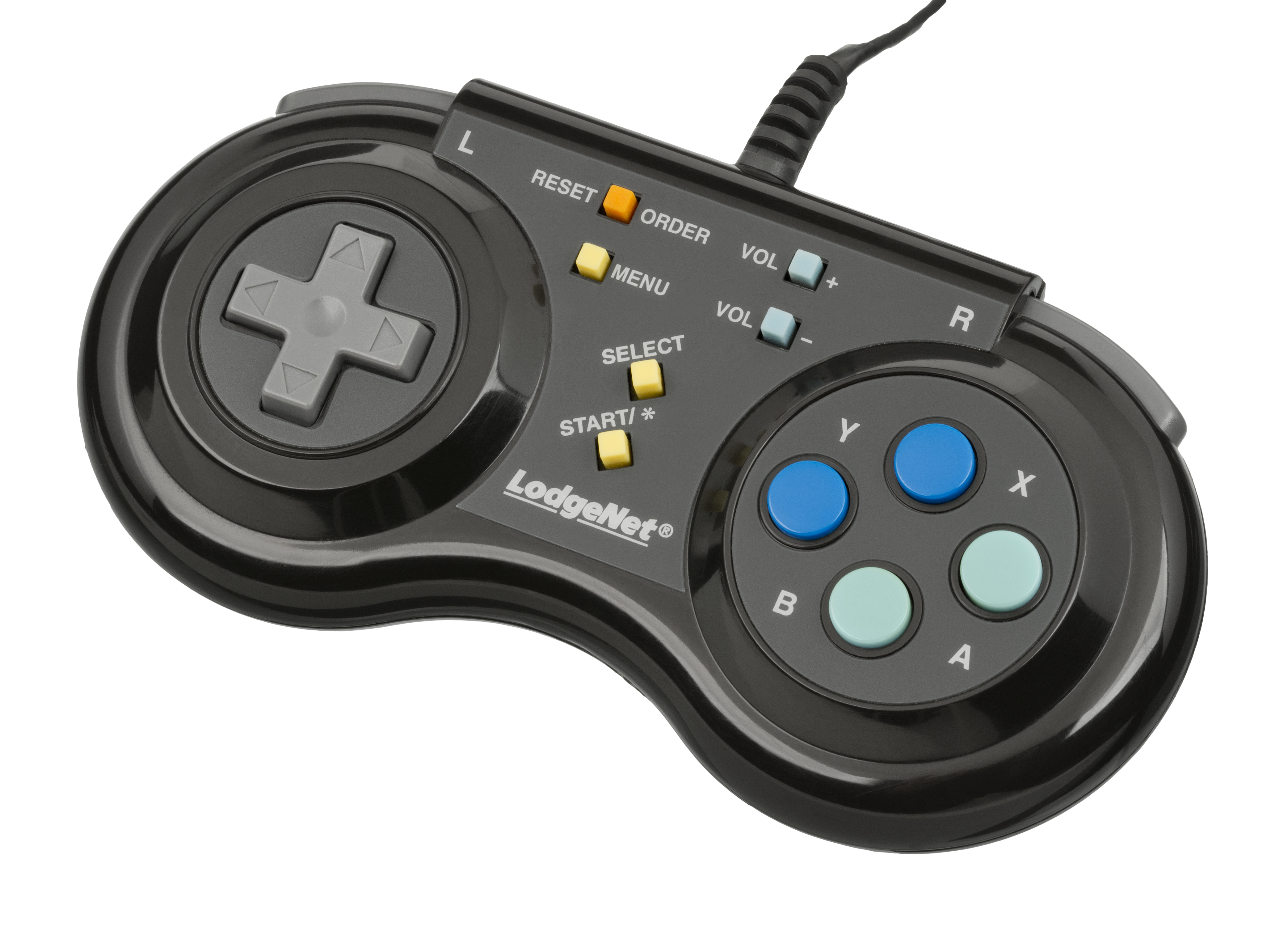 A controller for the LodgeNet Super Nintendo video game streaming service. Offered in select hotels in the US, this controller was hooked up to the televisions in each room, which could be used to play Super NES games for a fee on a per-hour basis.